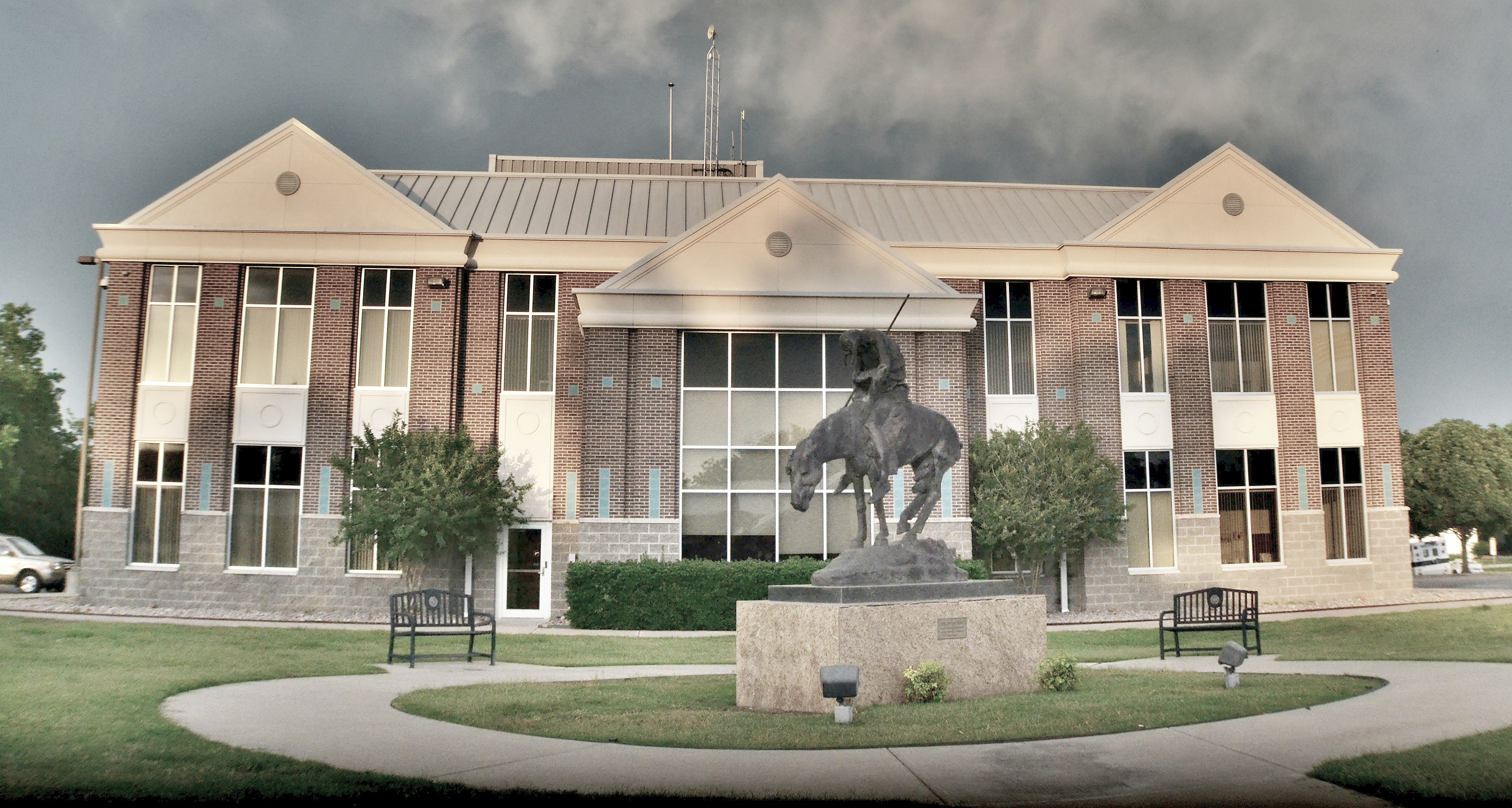 Owasso Police Department, Owasso, OK.